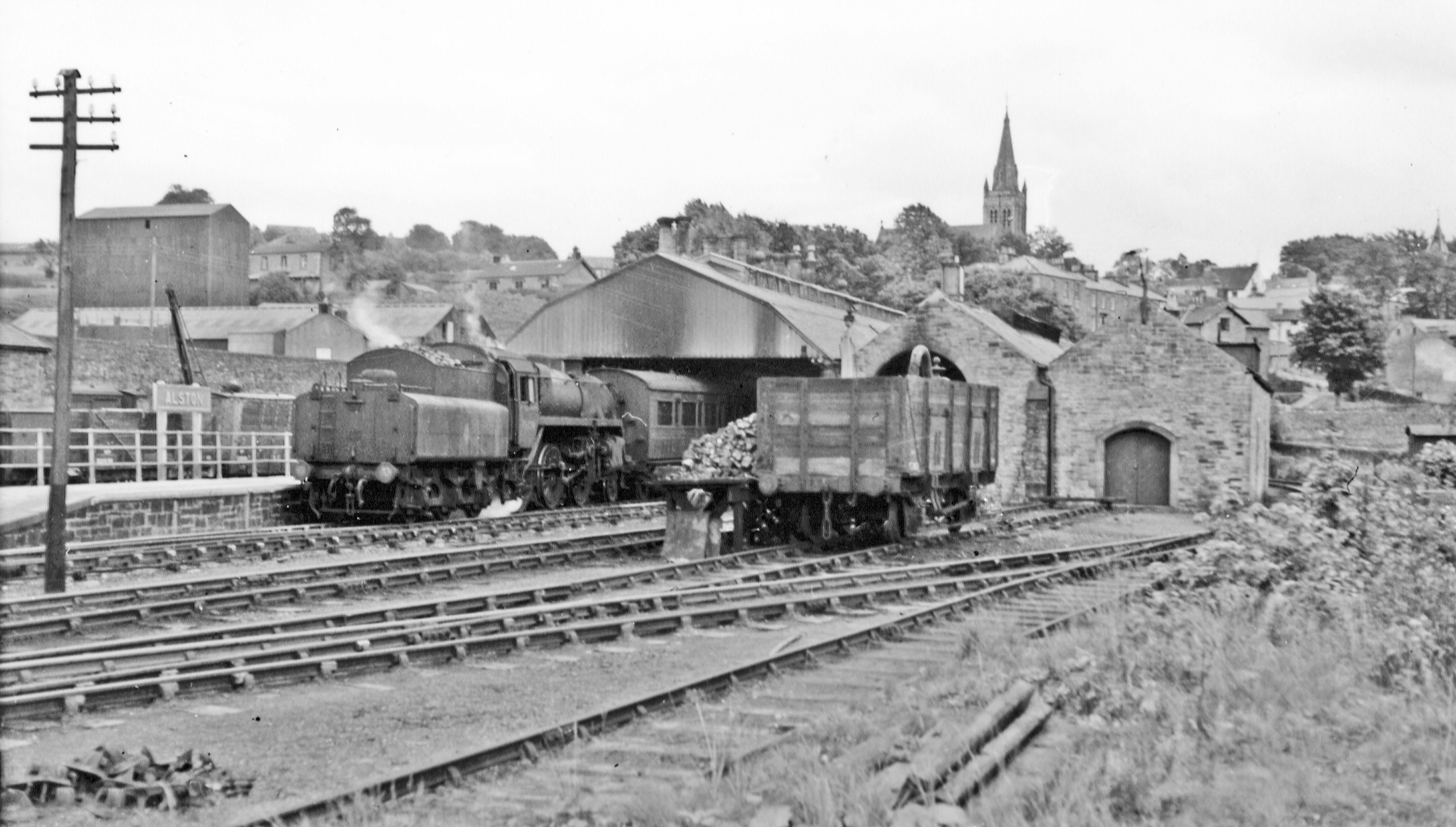 Alston station, general view 1954View SE to the terminal station and engine-shed, at the end of the ex-NER branch from Haltwhistle (see NY7146 : Alston station, exterior 1954). In the station is a BR Standard 3MT 2-6-0 (tender-first) on a train for Haltwhistle.